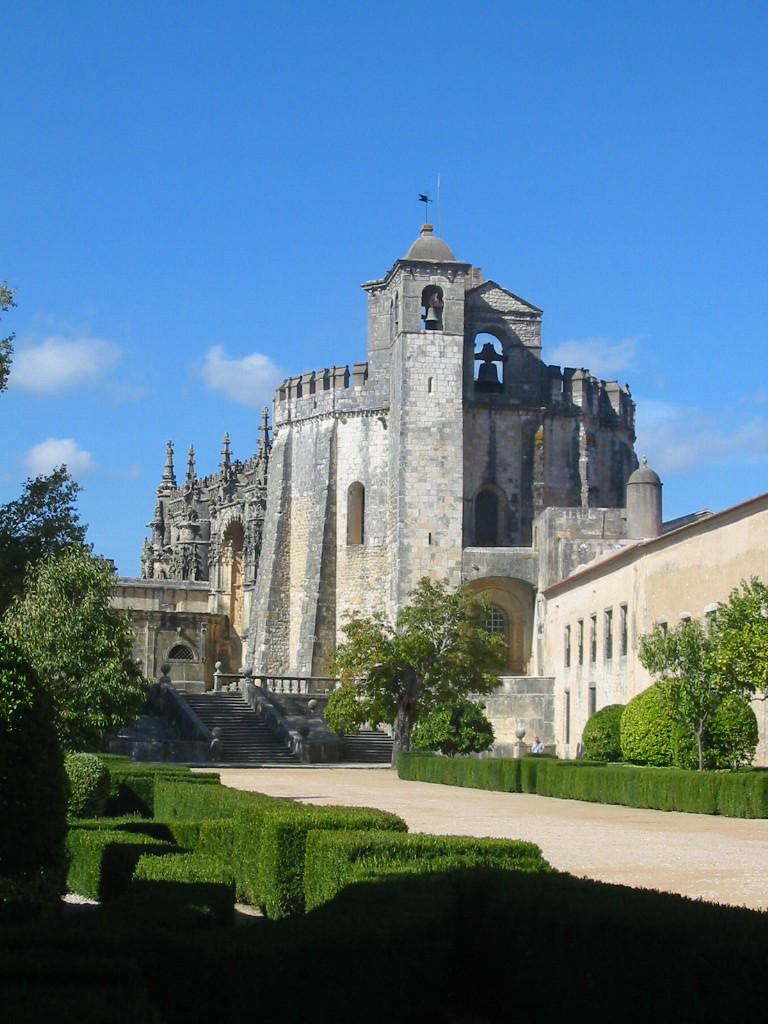 Templars Round Church in Tomar